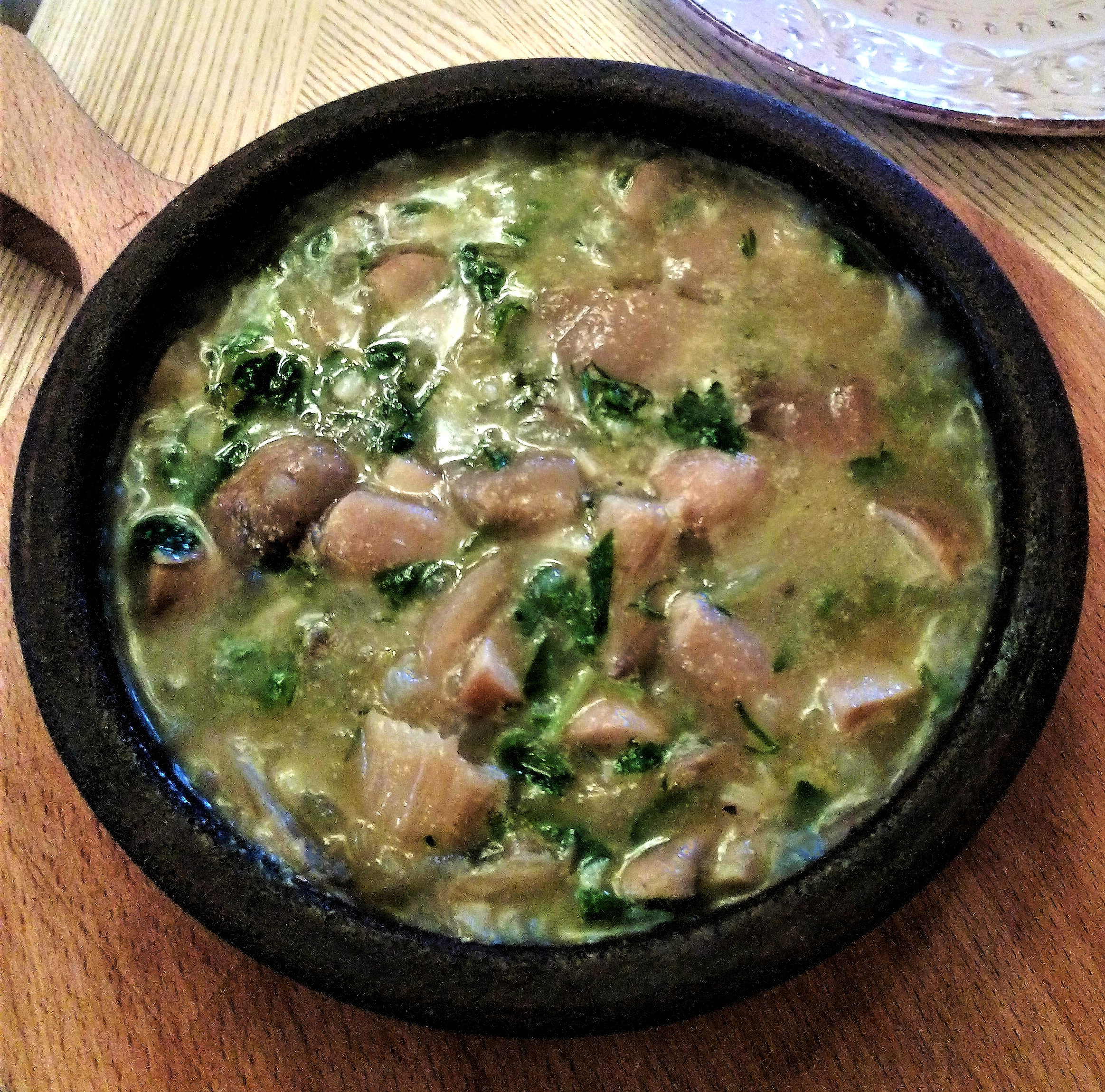 Vegetarian chakapuli with mushrooms in Chernihiv restaurant Buba.